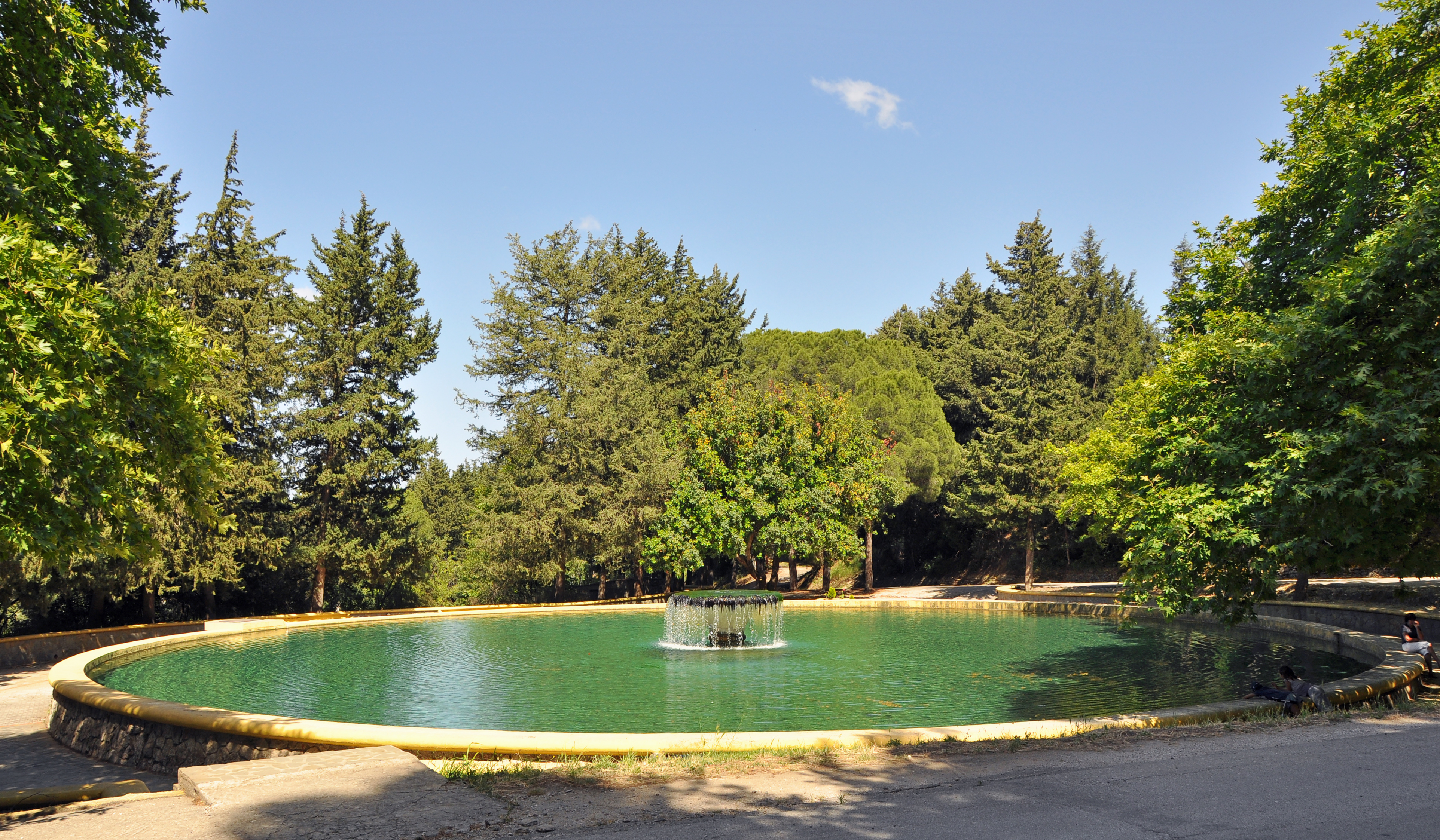 Eleousa (Rhodes, Greece): pond with fountain